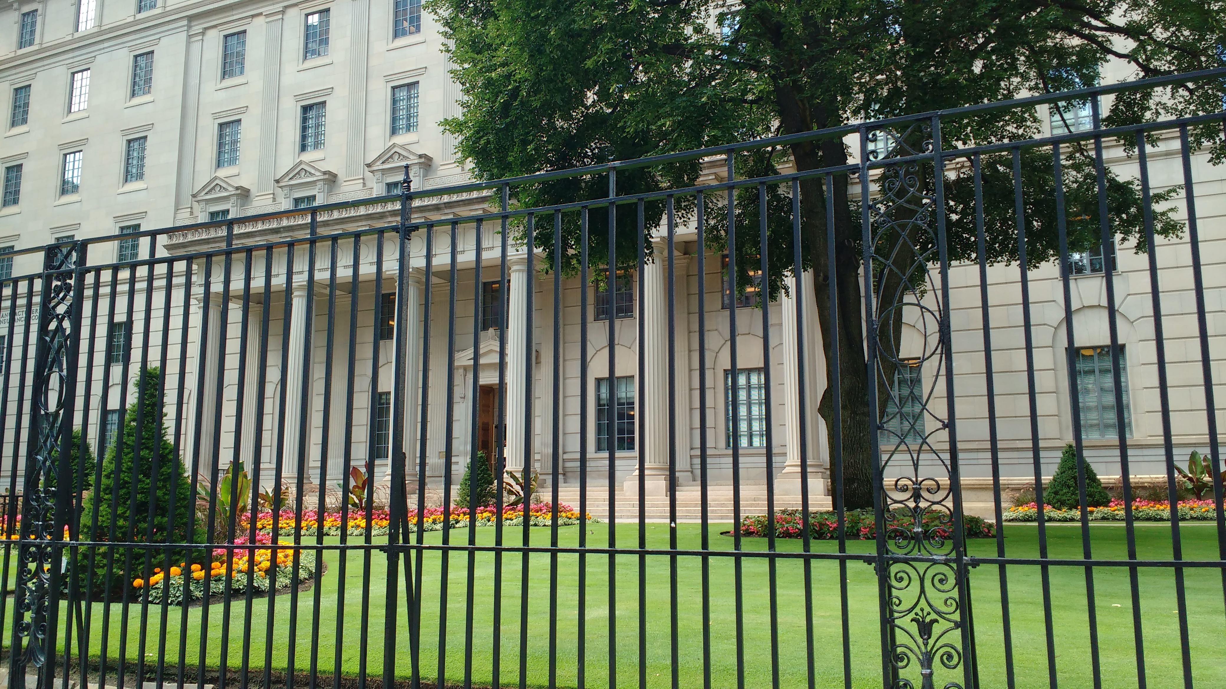 View of the fence around the Manulife property.